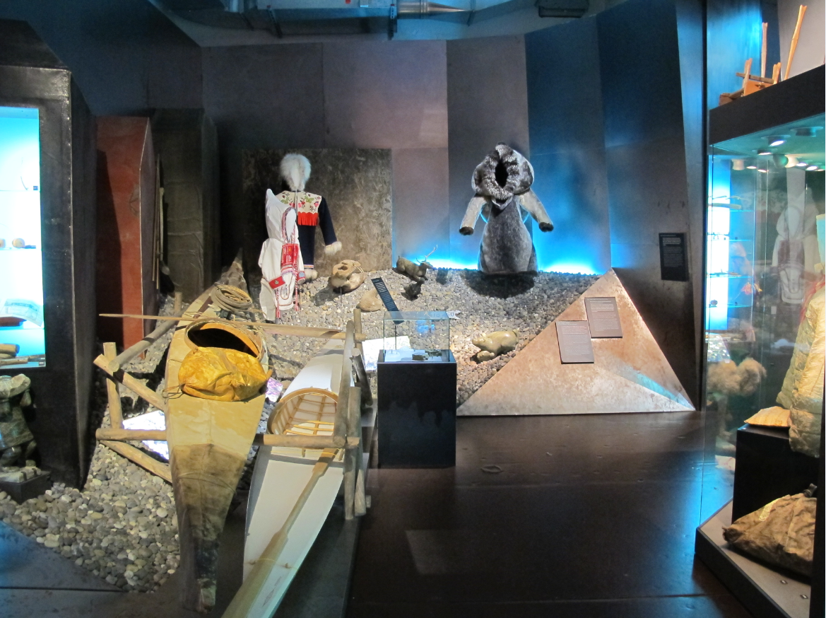 View of the arctic exhibition at the NONAM Nordamerika Native Museum Zurich / Blick in die Arktisabteilung der Dauerausstellung im Nordamerika Native Museum Zürich